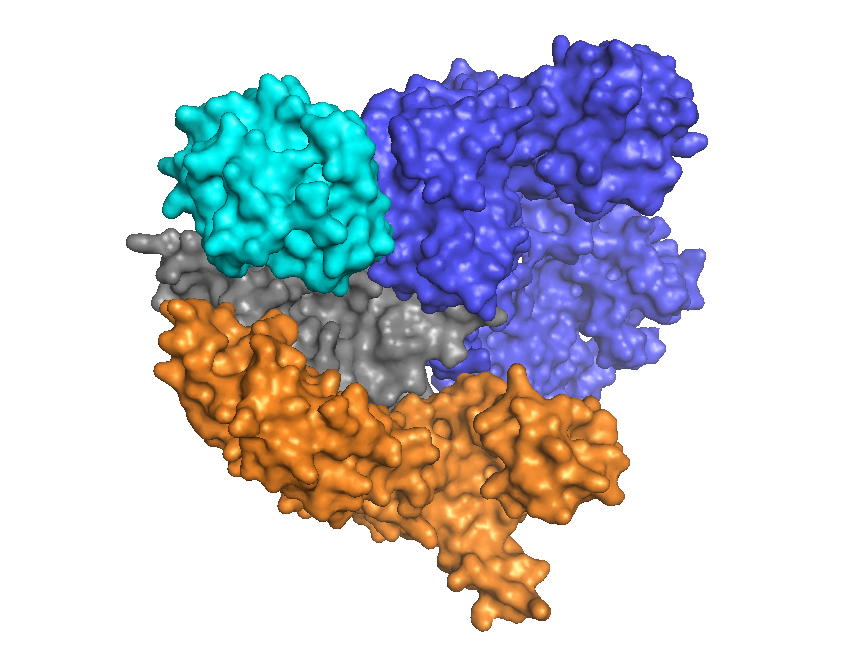 Crystal Structure solved by M Jinek et al Science 2014. File was downloaded from PDB database and analyzed via UCSF's free Chimera software